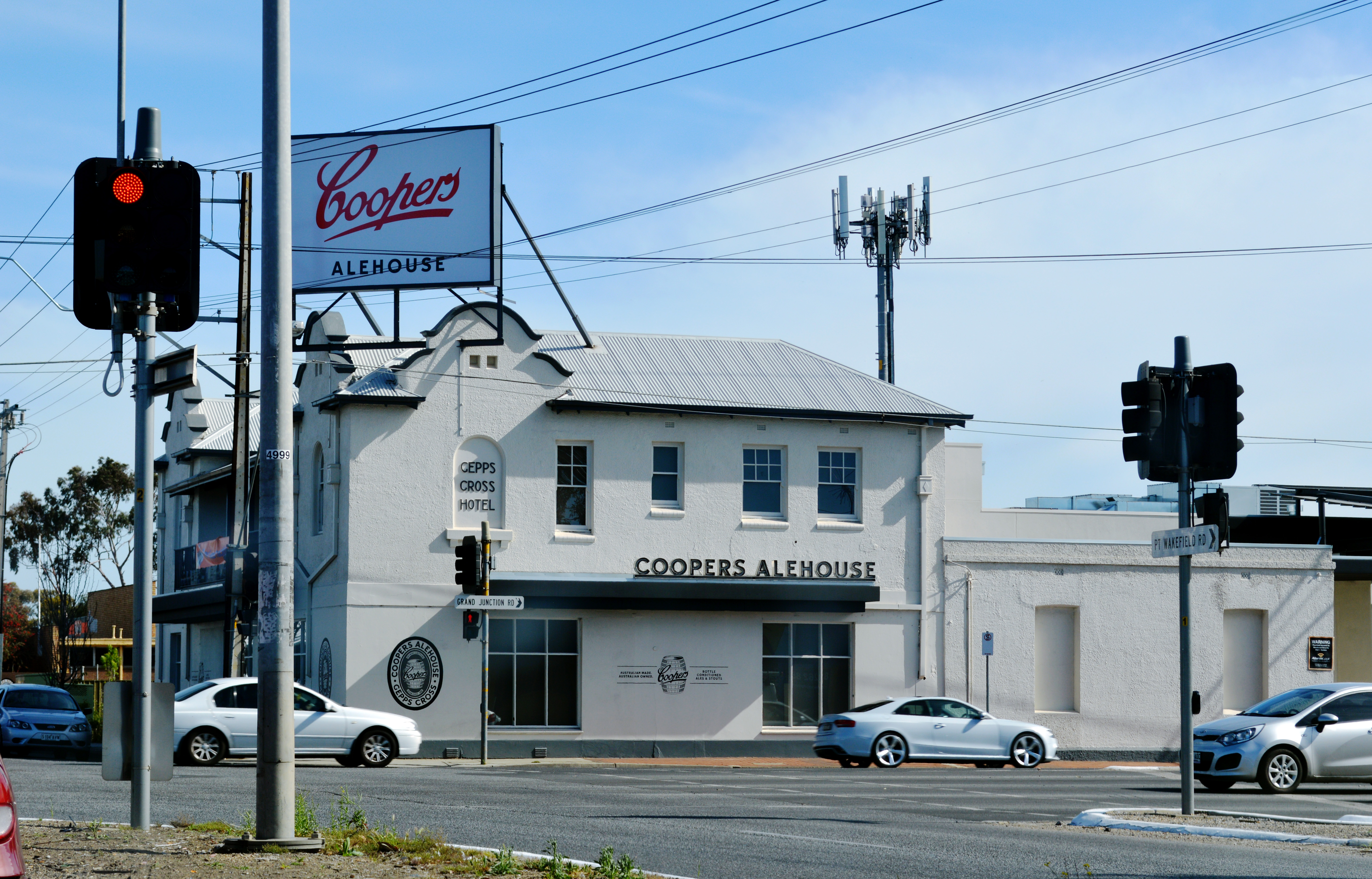 Gepps Cross, South Australia, featuring the Coopers Alehouse (Gepps Cross Inn)